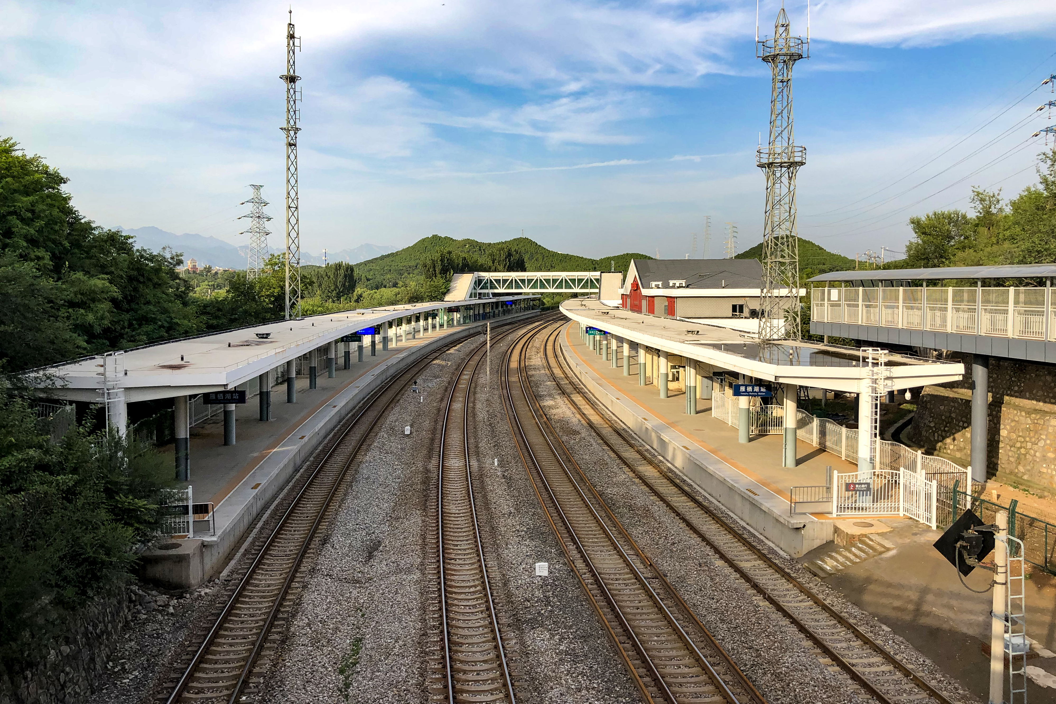 Nearly unable to get the profile photo of station building.